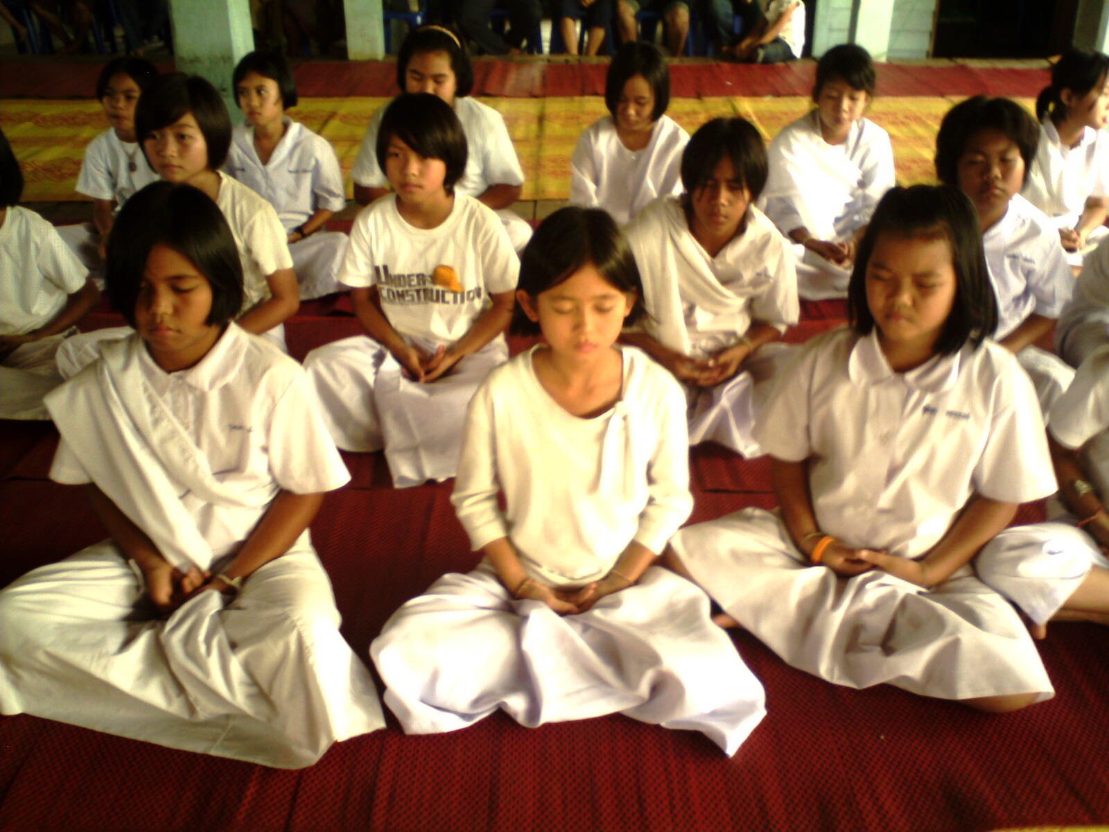 Buddhist child is sitting the concentration. Location: Wat Khung Taphao Ban Khung Taphao, Khung Taphao subdistrict, Mueang Uttaradit, Uttaradit Province, Thailand.